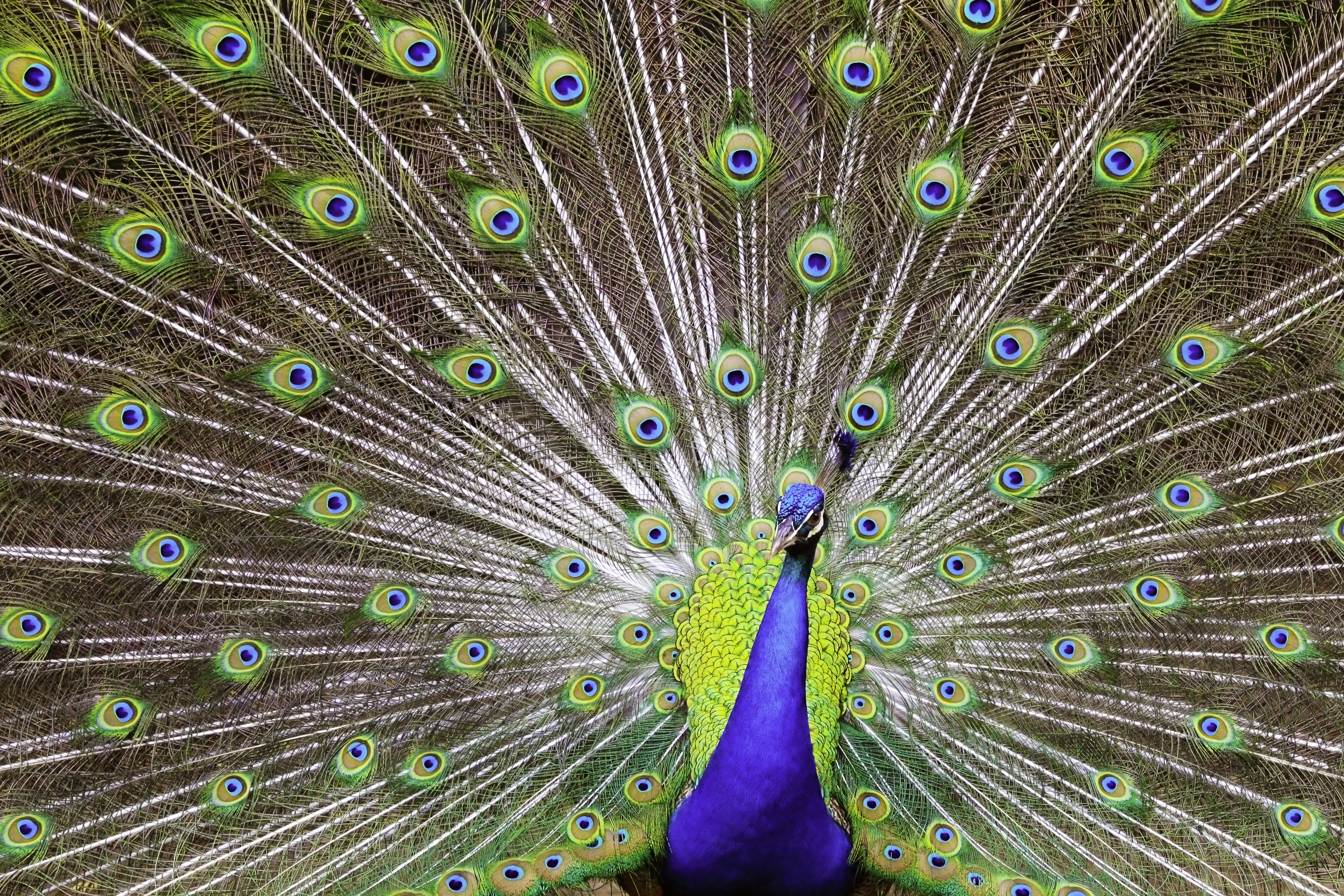 Indian peafowl (Pavo cristatus) in Ribeirão Preto, SP